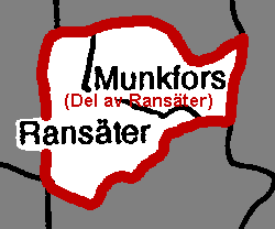 old municipalities